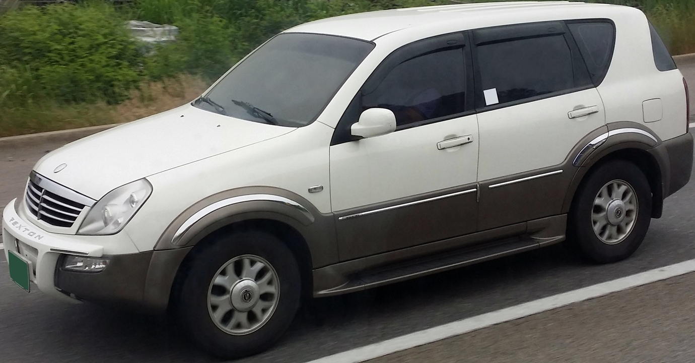 SsangYong New Rexton